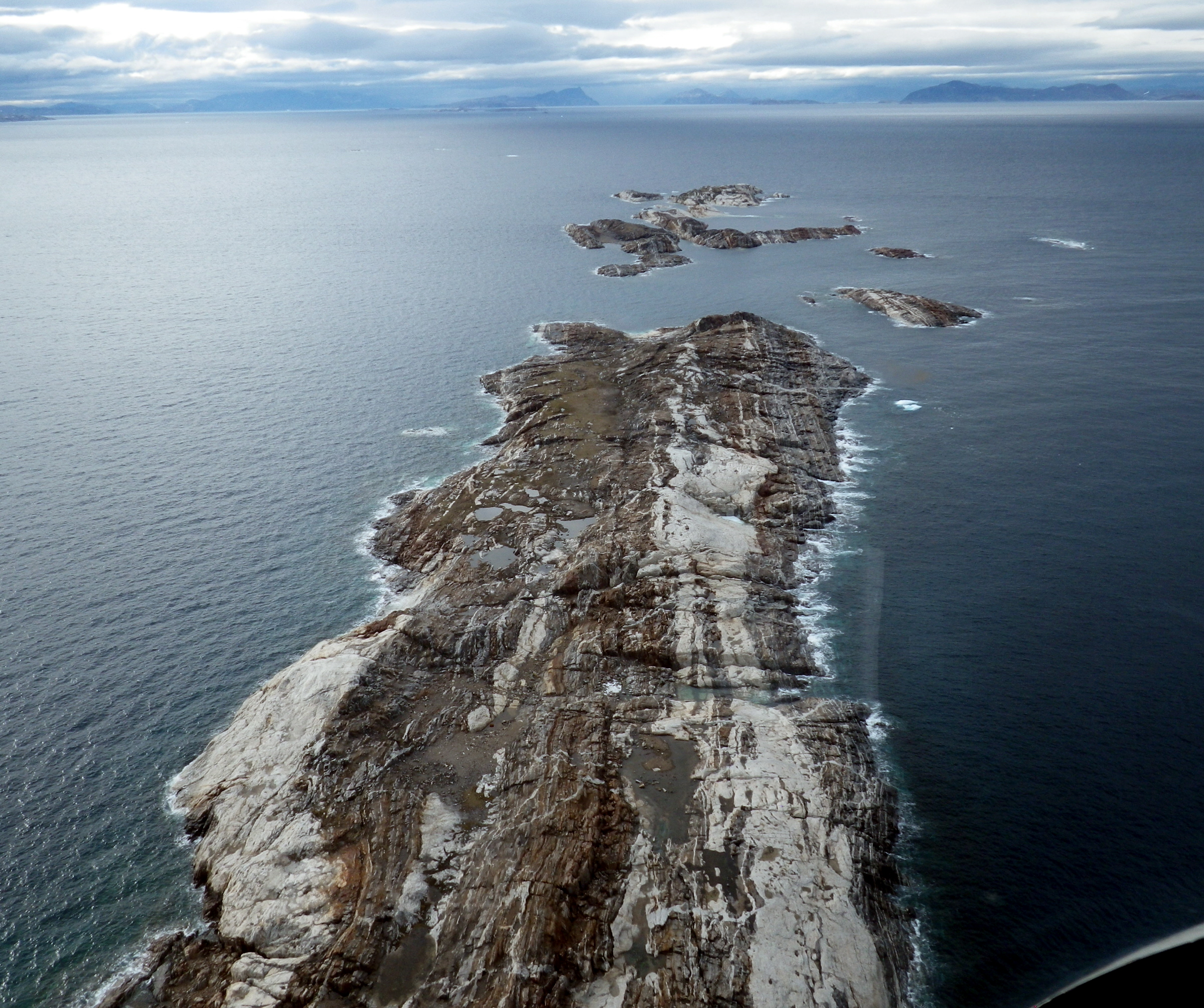 Orogenic remnent offshore of rugged Baffin Island between Qikiqtarjuaq and Clyde River. Vertical-dipping rock formation ripped by quartz shows that Baffin Island and Greenland once played bumper cars. And the polar bears are just starting to turn up from their annual swim across a wide stretch of water from Greenland to Baffin's north shore.